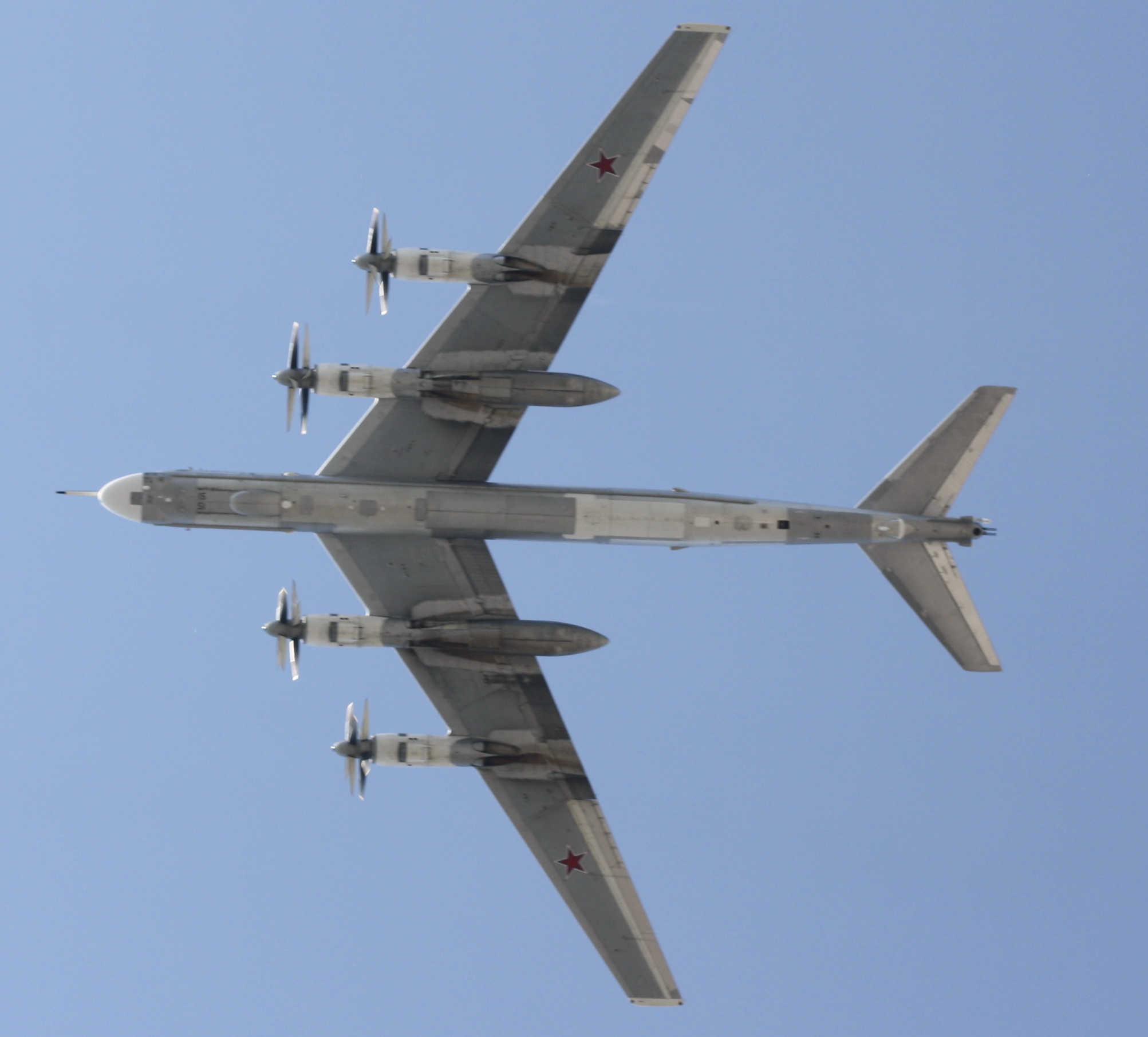 Planes in Russian Parad 2010